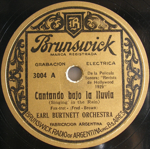 Earl Burtnett - Singin´ in the rain